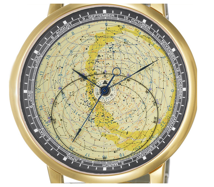 My Watch